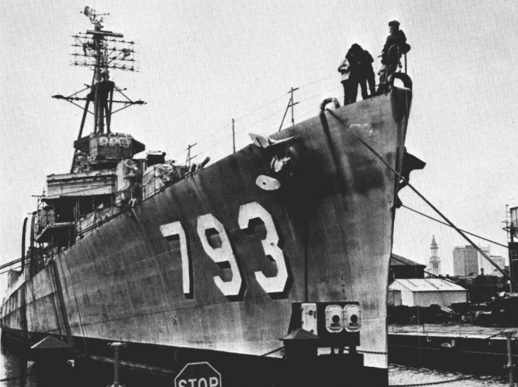 The decommissioned U.S. Navy destroyer USS Cassin Young (DD-793) arriving at the Boston Navy Yard in 1978 to become a museum ship, in 1978. The ship opened in 1981.